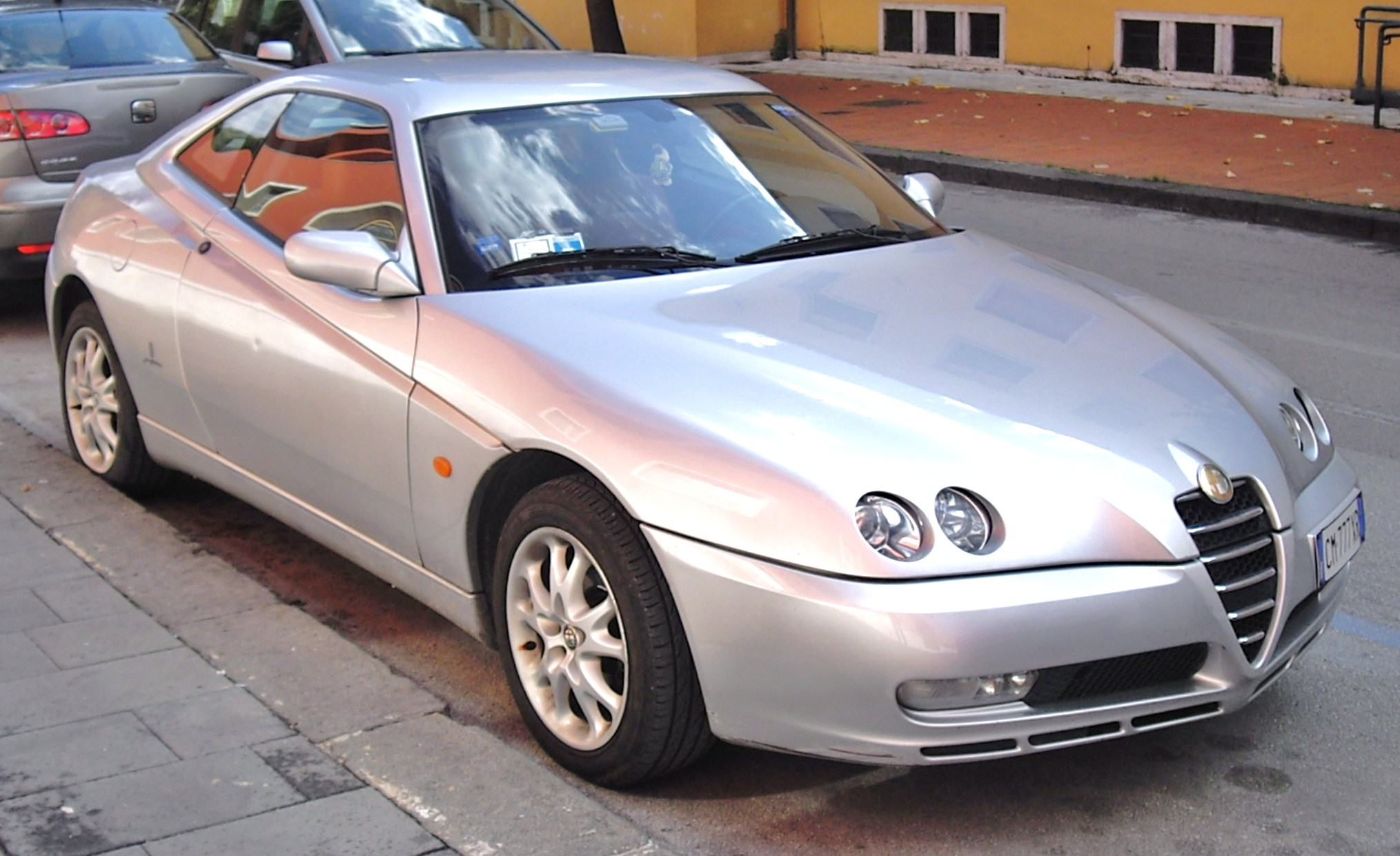 Alfa Romeo GTV facelift front.JPG